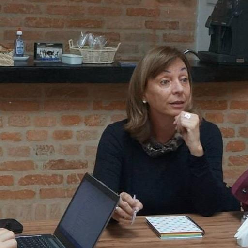 Coraly Pedroso - Cultural Producer